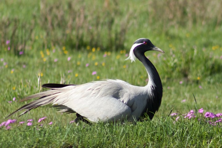 Demoiselle crane